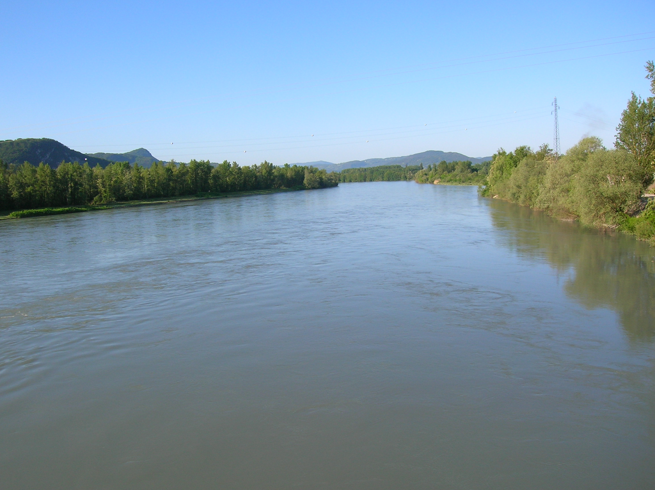 The Rhone crossing the marsh of Chautagne, Ain Savoy, France, southern sight.